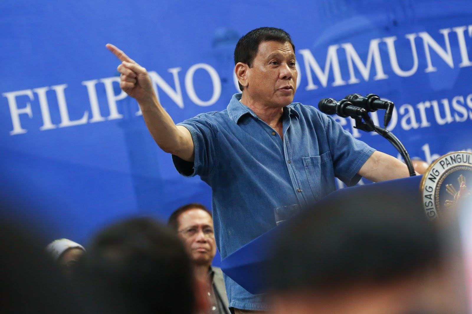 President Rodrigo Duterte delivers a message before the Filipino community in Brunei at the Hassanal Bolkiah National Sports Complex on October 16.